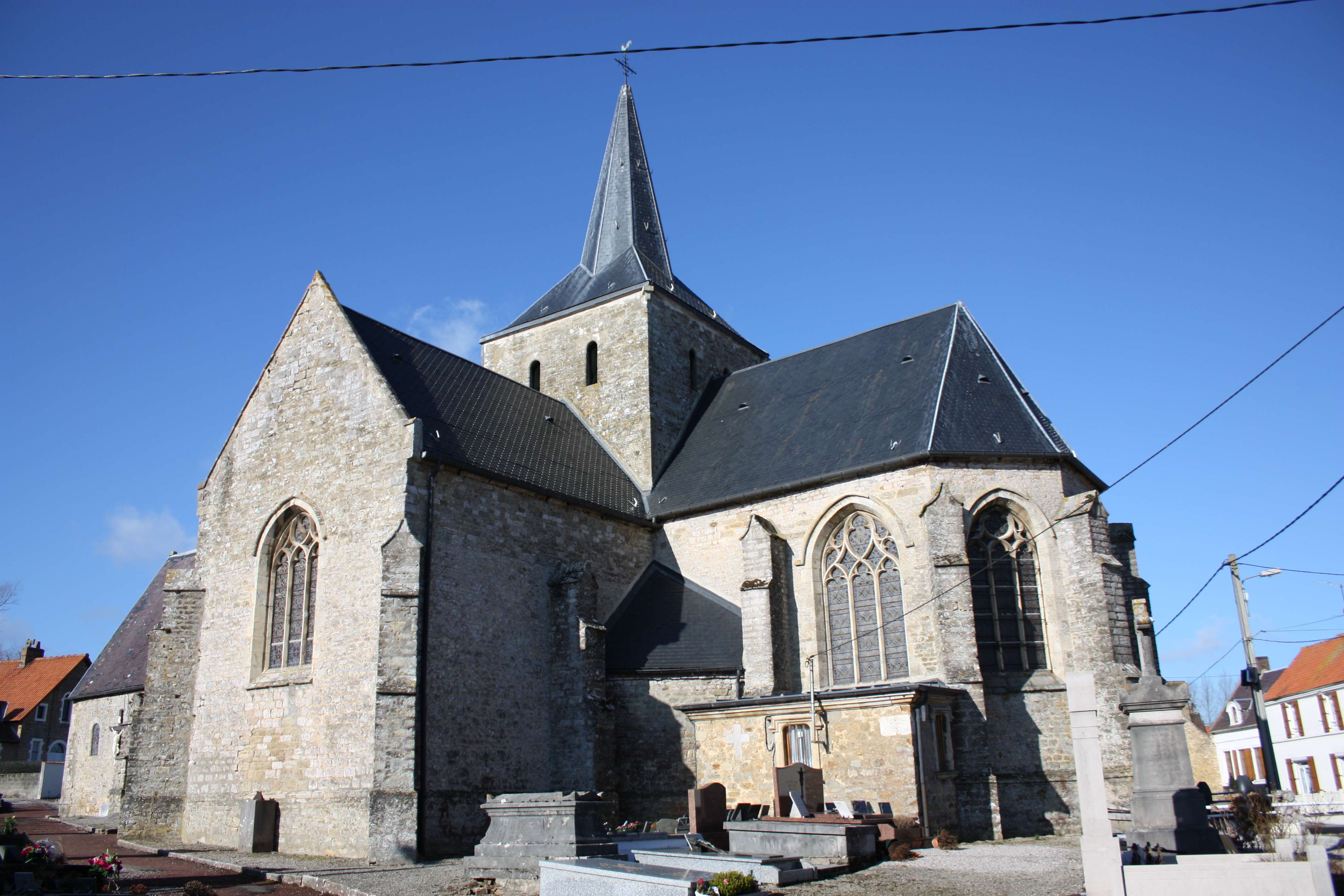 Photograph of the church of Wierre Effroy , a french town in Pas de Calais